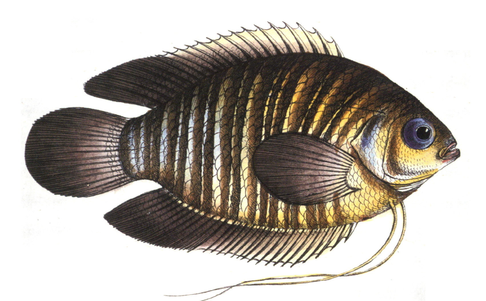 Colisa fsaciata (Perciformes: Osphronemidae).